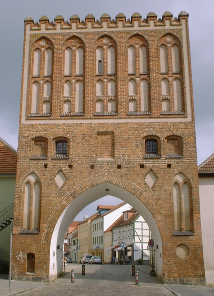 City gate in Malchin in Mecklenburg-Western Pomerania, Germany